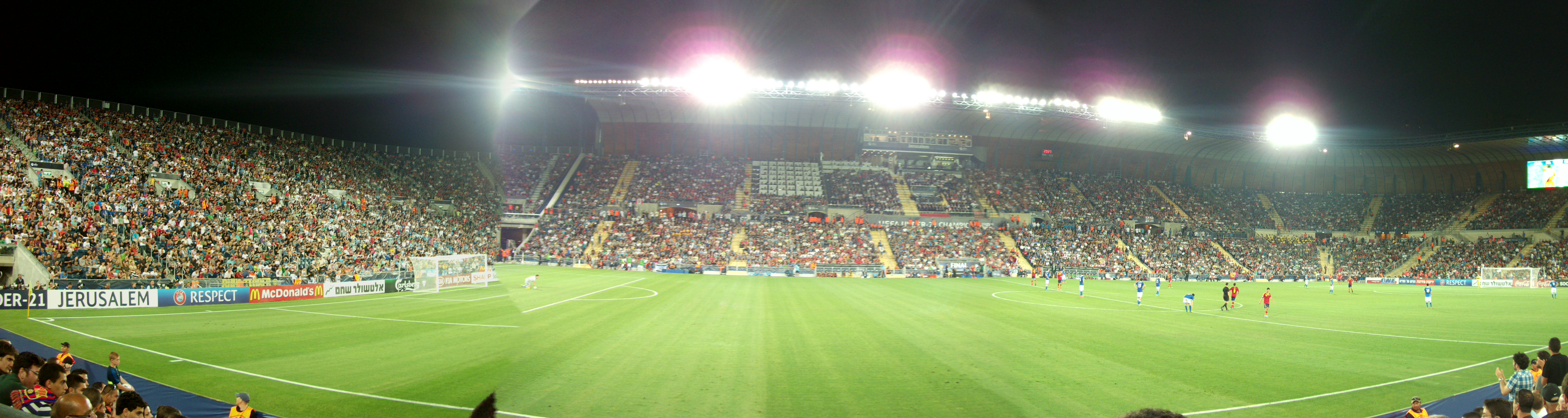 Teddy Stadium - 2013 UEFA European Under-21 Final